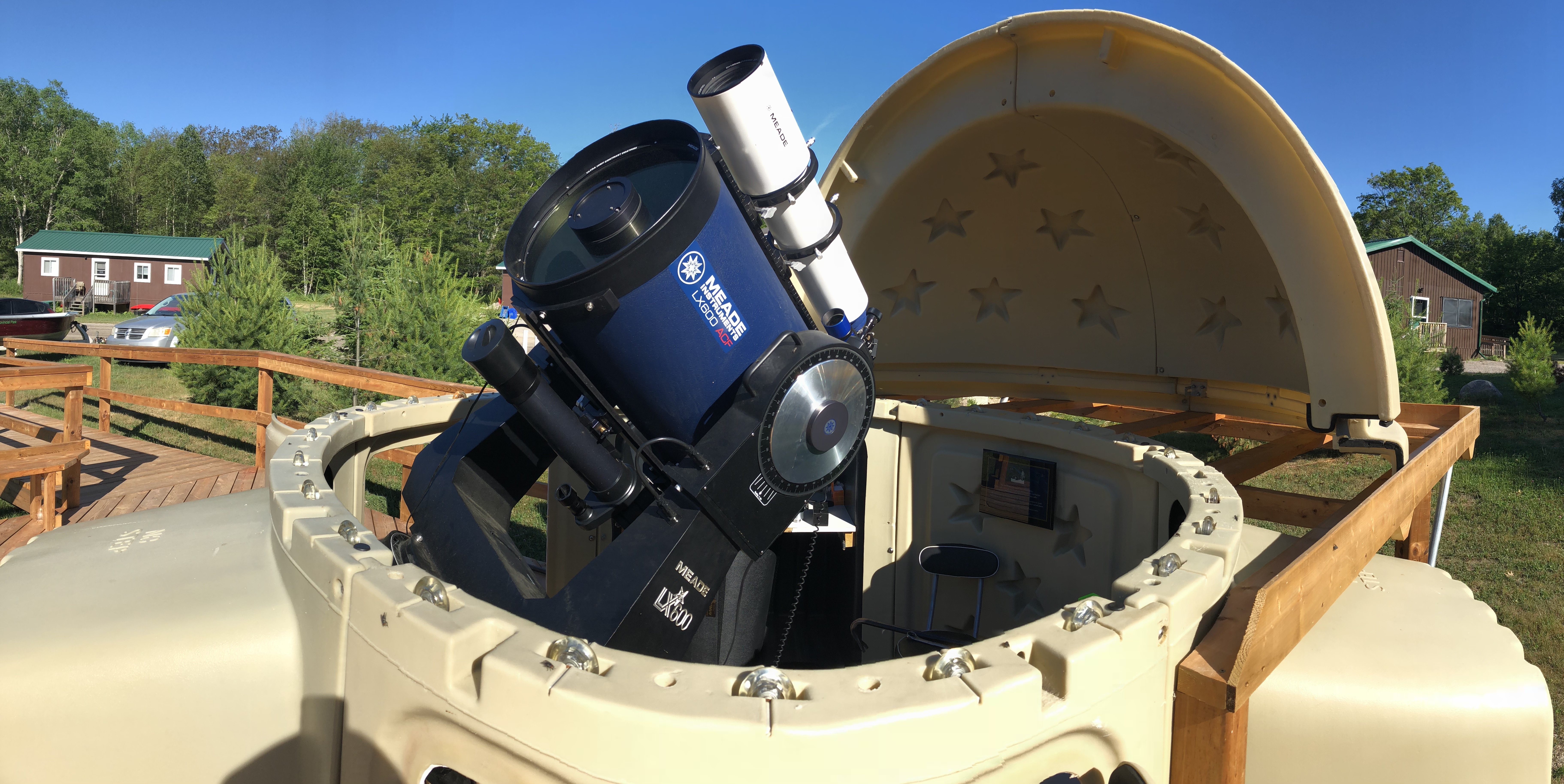 Killarney Provincial Park Observatory - 2018 Upgrade - Dome 2 with the Dome slide off